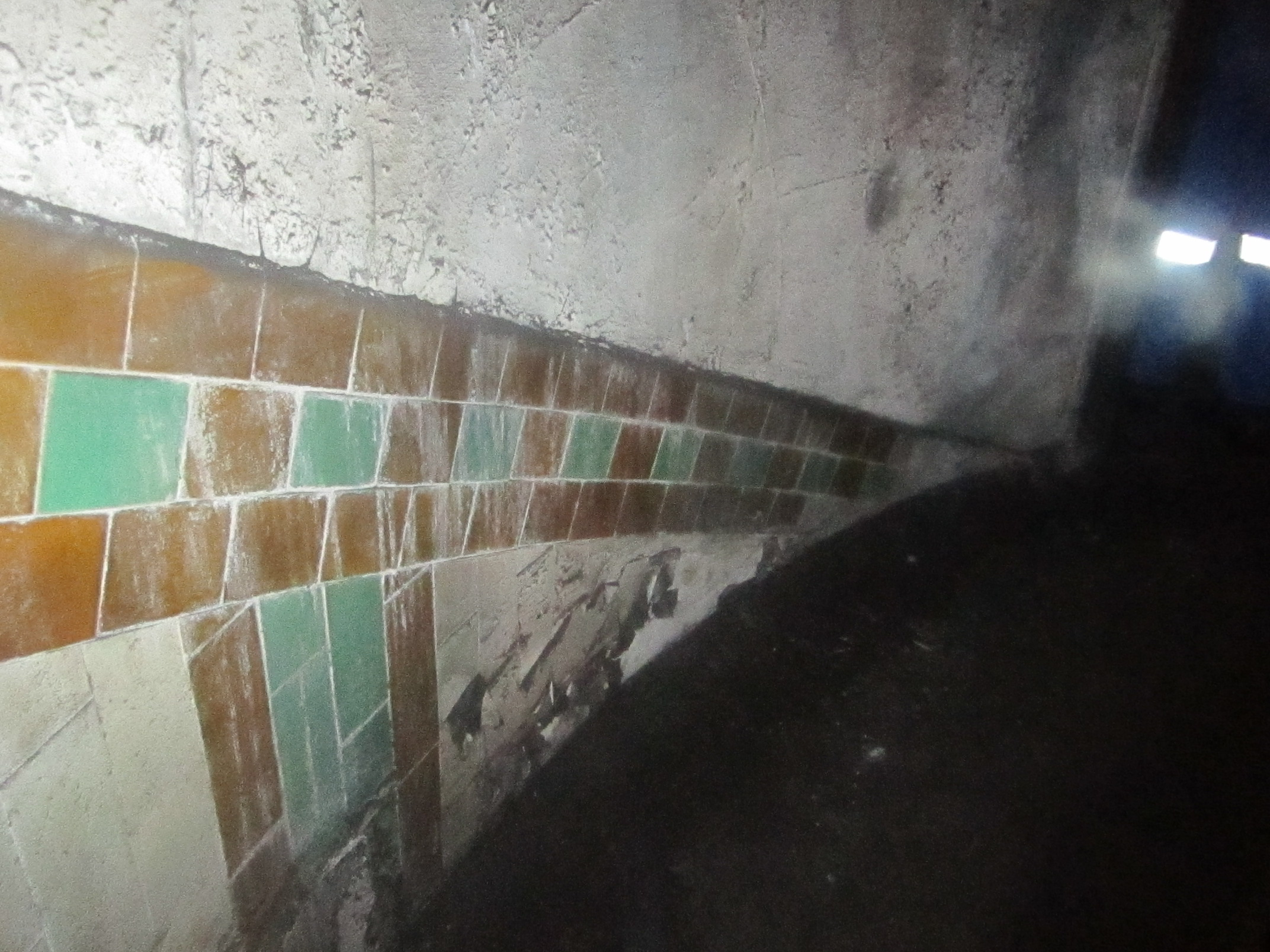 Tiles inside the disused Brompton Road tube station, photographed in 2011.